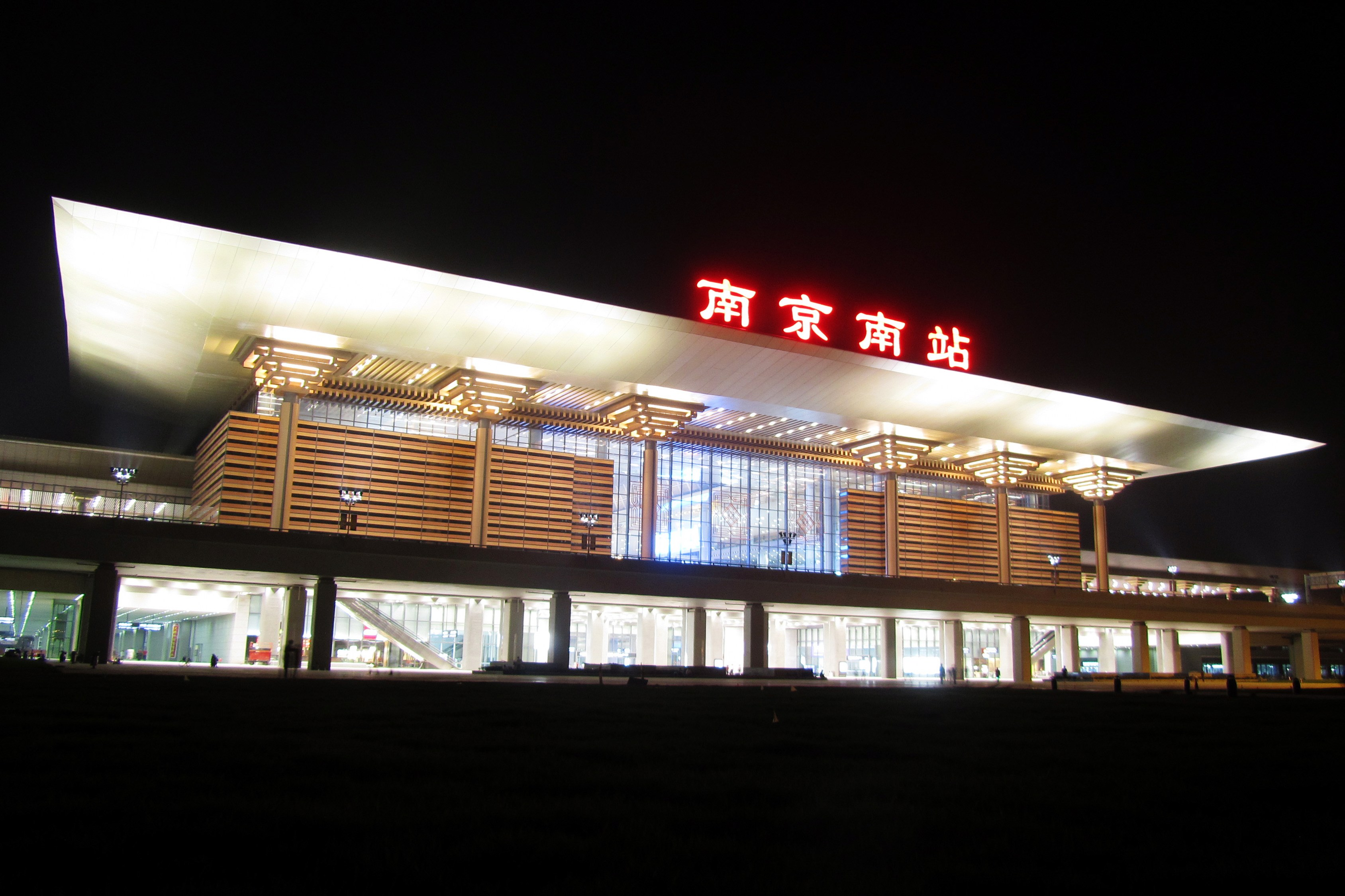 South Nanjing Station